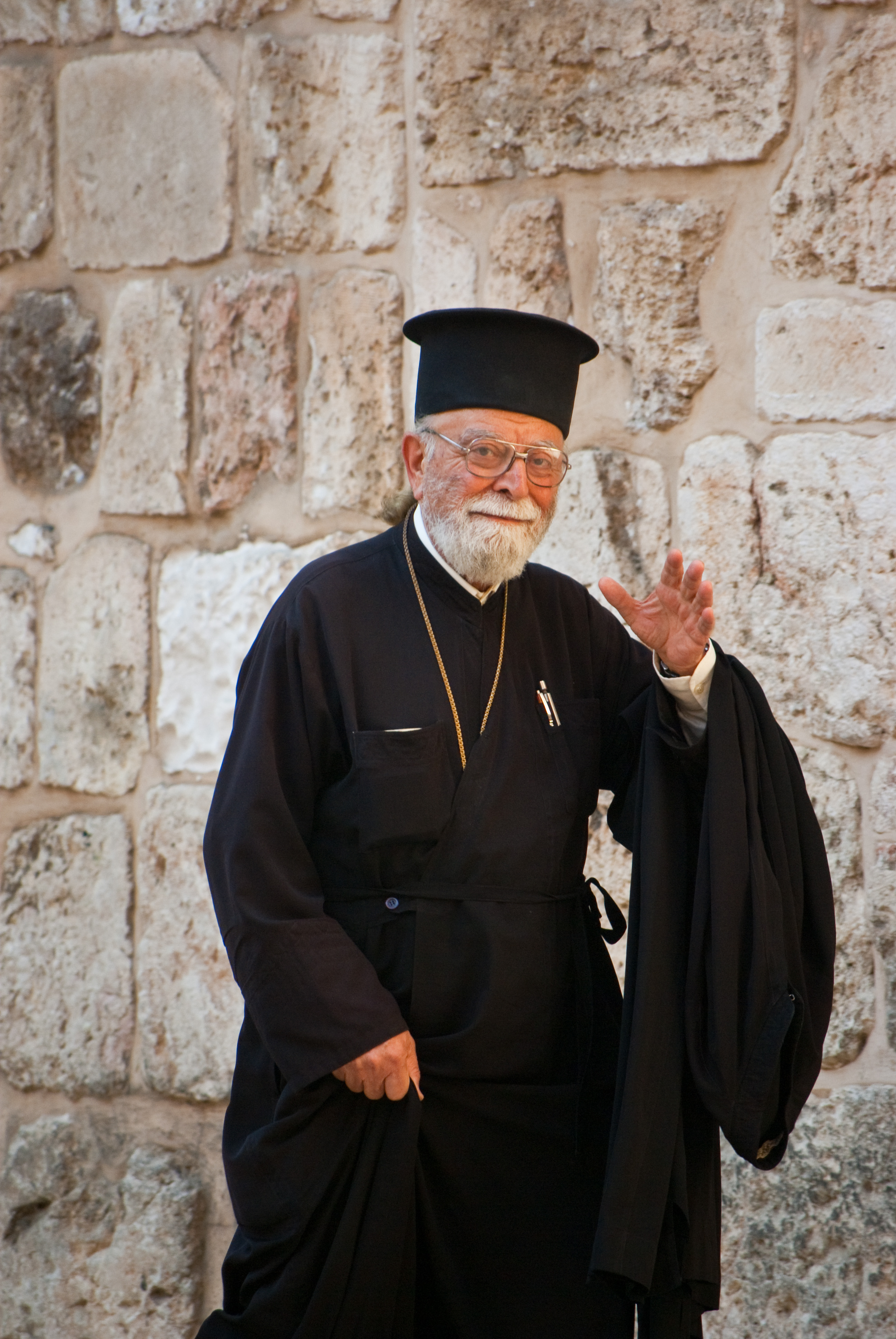 religious in the Holy Sepulchre